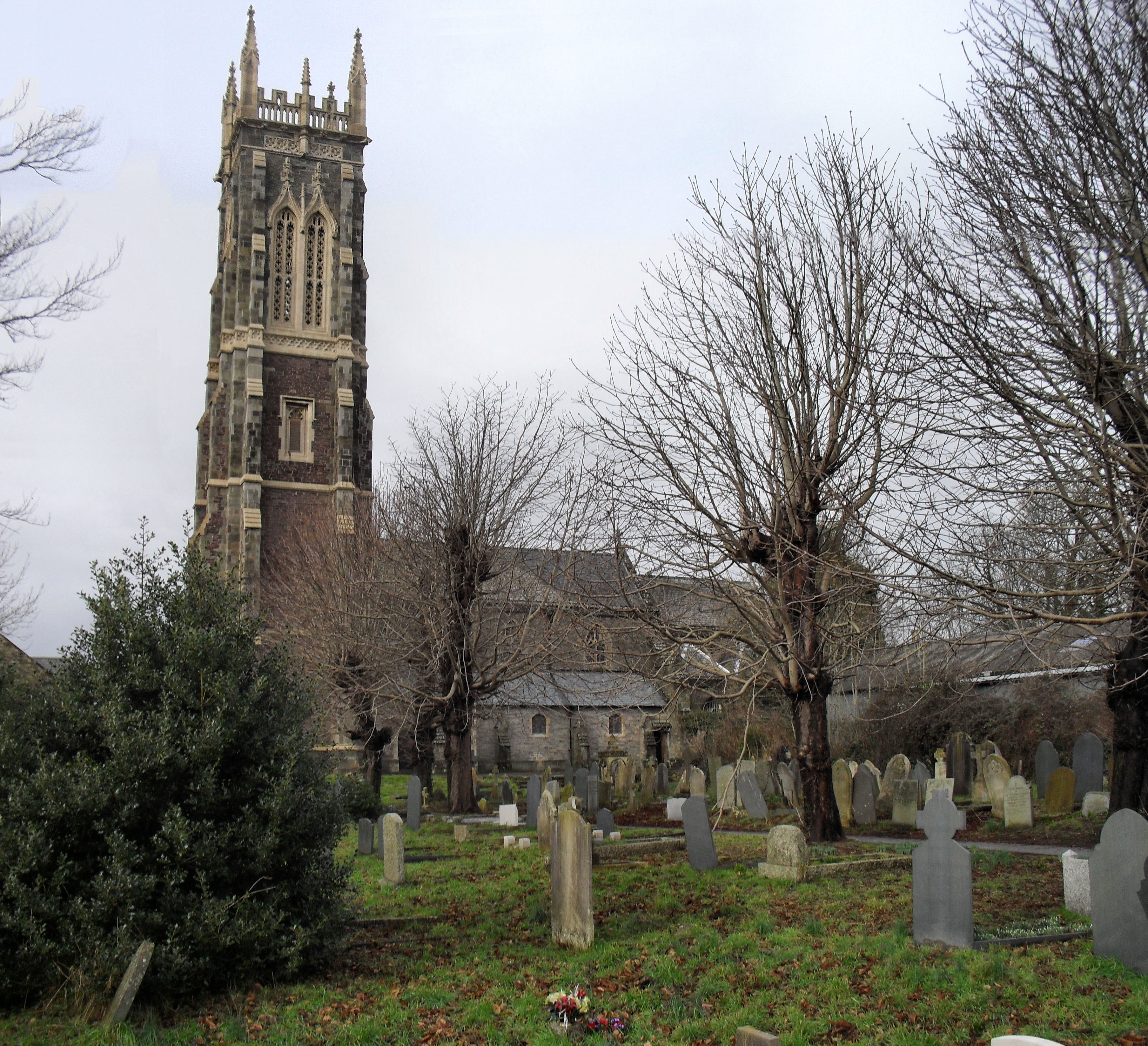 Holy Trinity parish church, Barnstaple, Devon, seen from the southeast